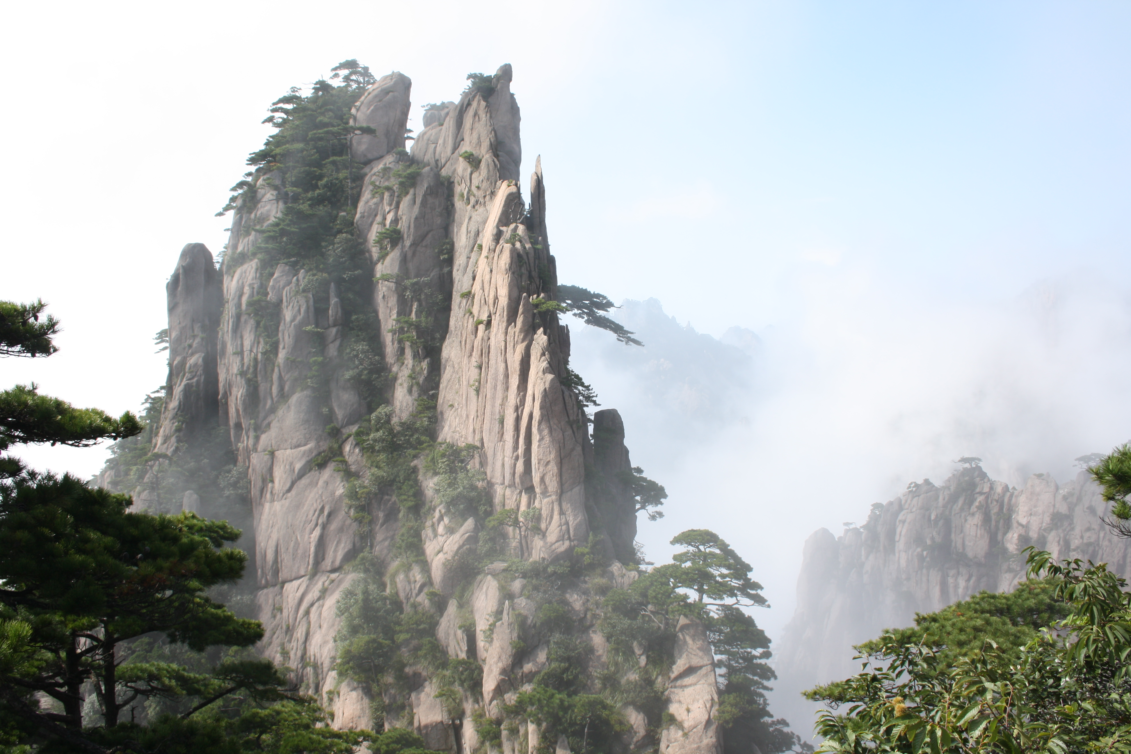 Rocks in Huangshan mountains.